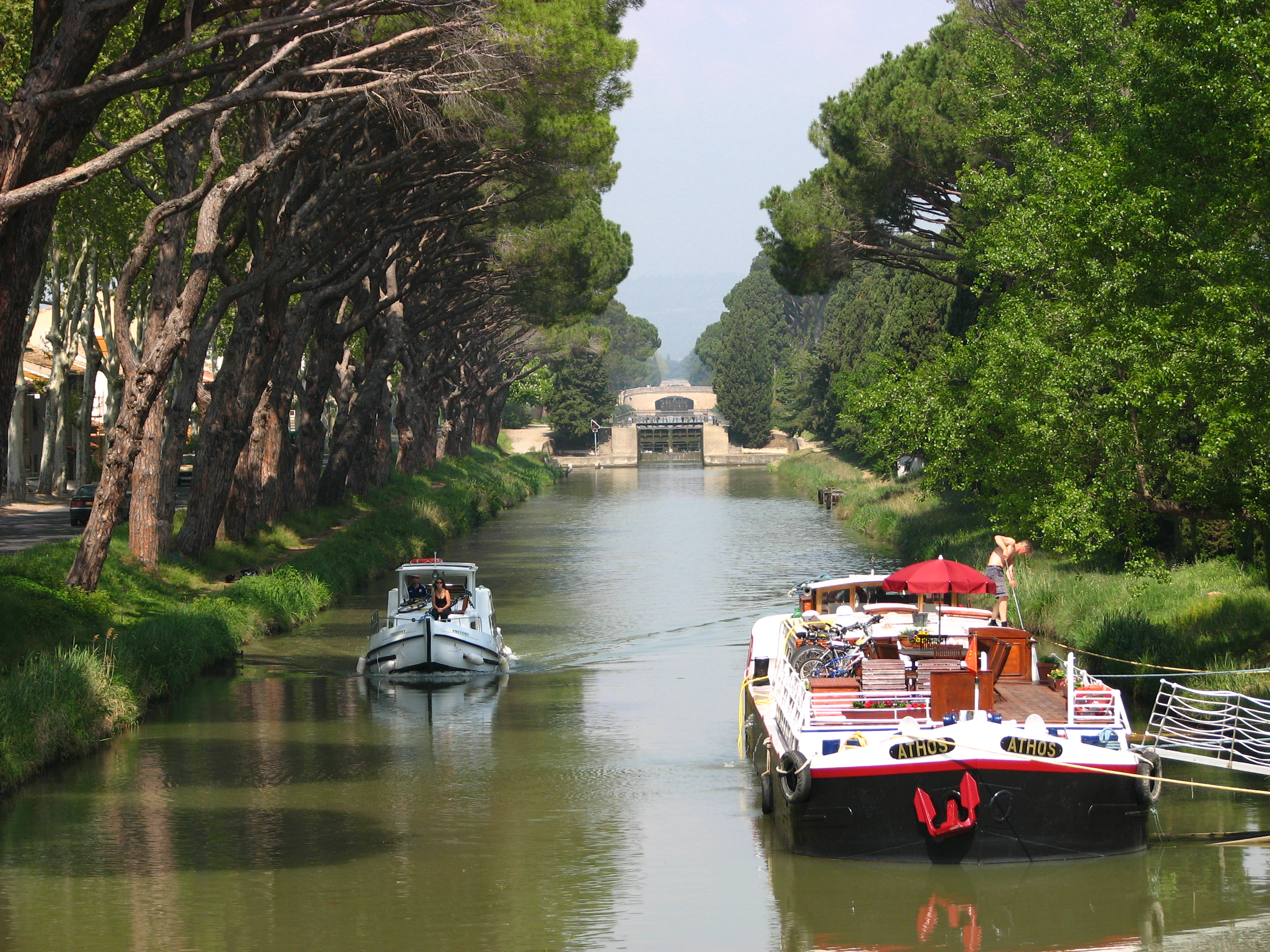 Canal de Jonction at Sallèles d'Aude looking south towards Sallèles Deep Lock